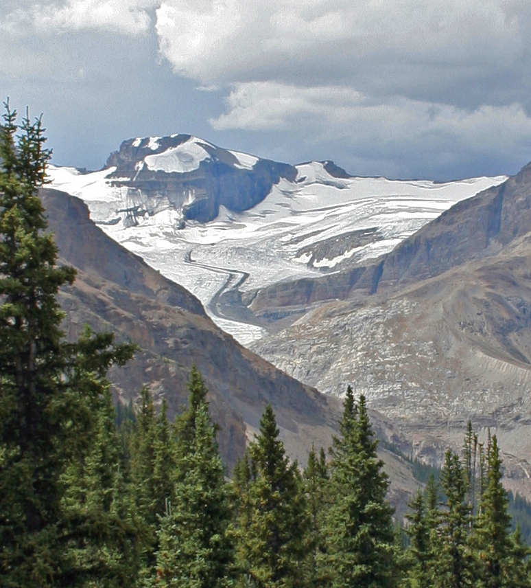 Mount Habel seen from Peyto Lake overlook in Banff Park, Canada